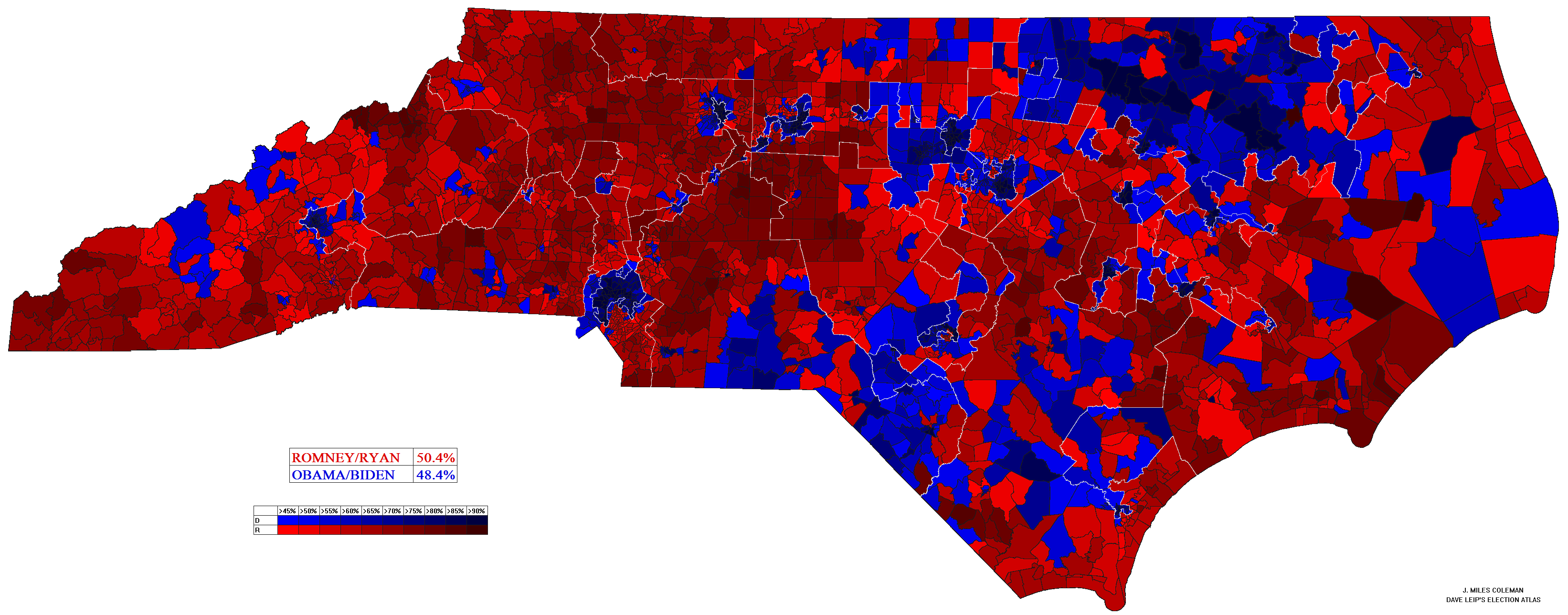 North Carolina 2012 Presidential Election by Voting District.